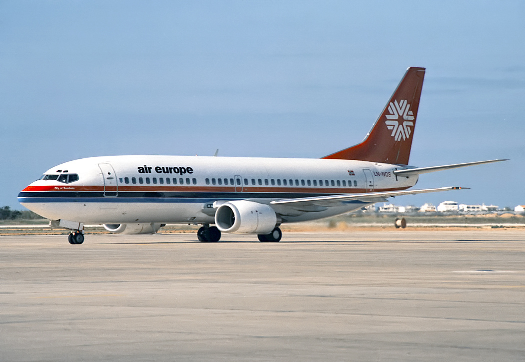 Air Europe / Norway Airlines (livery) Boeing 737-33A LN-NOS at Faro Airport